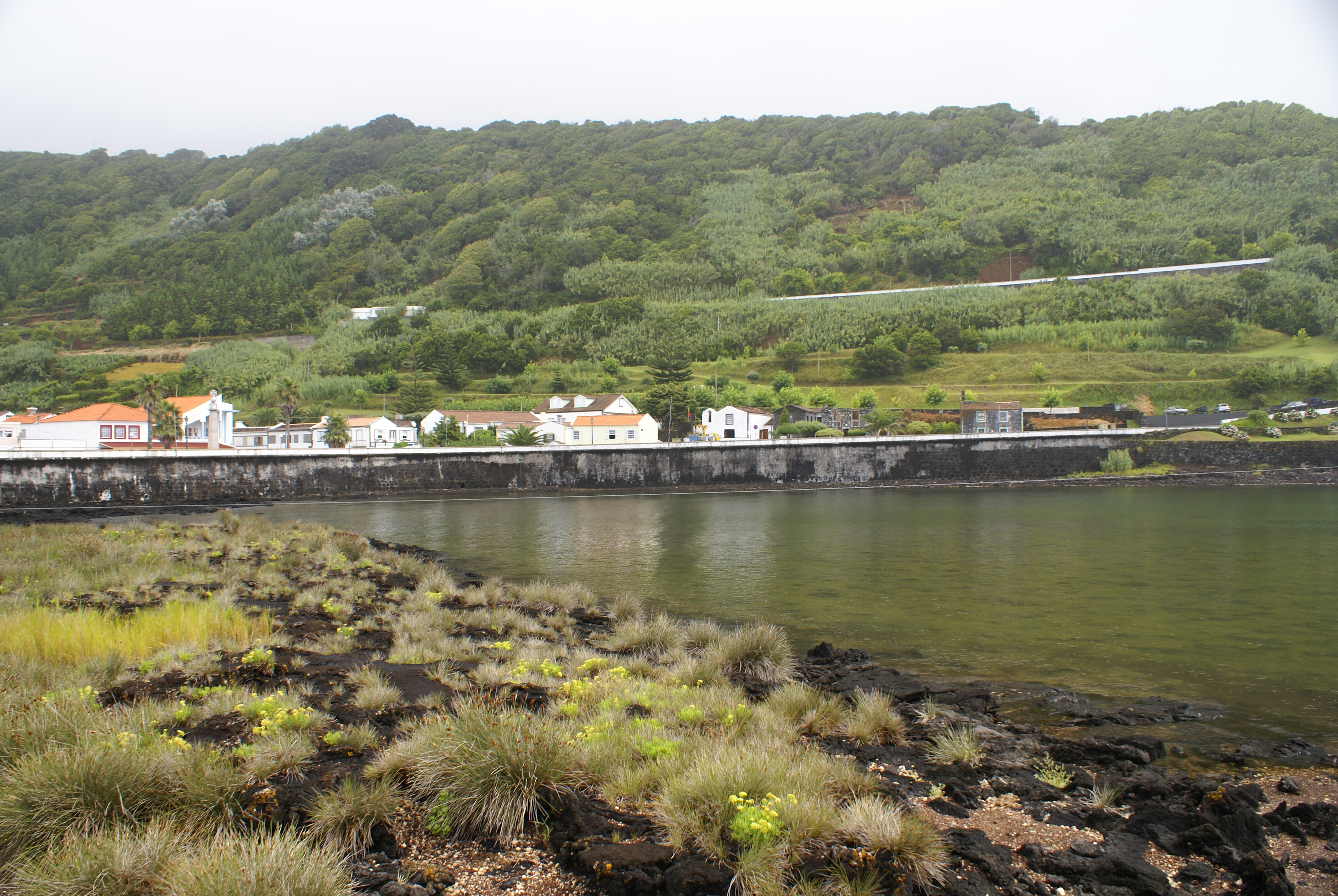 Zona de Protecção Especial para a Avifauna das Lajes do Pico, 3 Lajes do Pico, ilha do Pico, Açores, Portugal